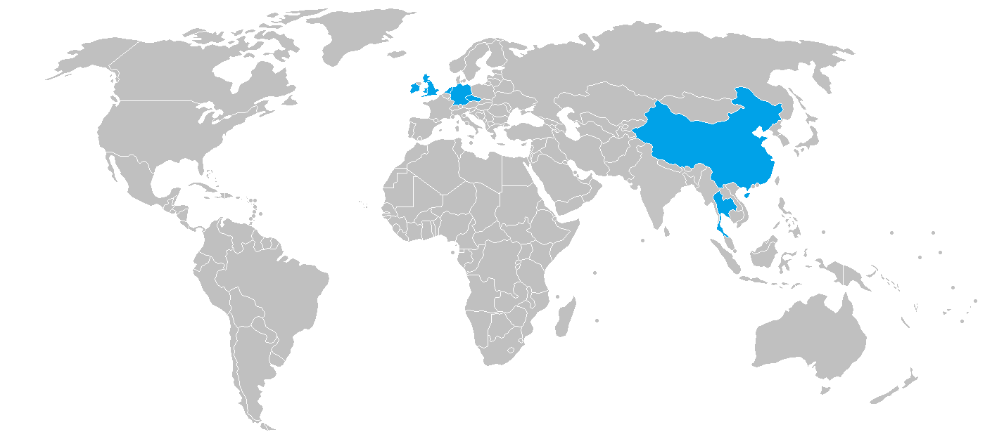 Nations hosting a World Snooker Tour event in 2010/11